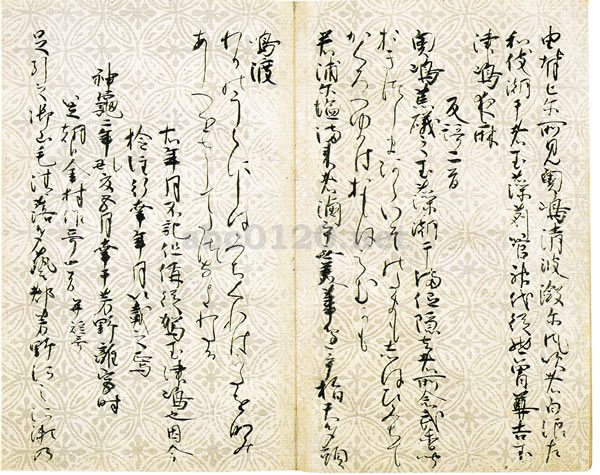 Collection of Ten Thousand Leaves (万葉集, Man'yōshū) or Kanazawa Manyō (金沢万葉)